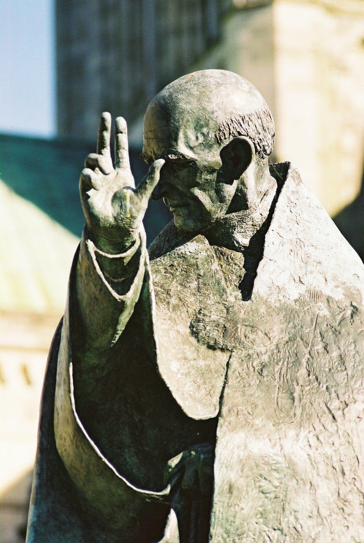 St Richard at THE CATHEDRAL CHURCH OF THE HOLY TRINITY AND CLOISTERS (Chichester Cathedral) Wikidata has entry Q1736182 with data related to this building.